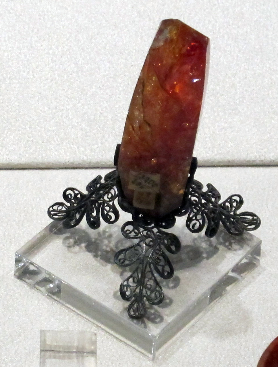 Museo di storia naturale (Florence) - Mineralogy section - Hardstone carving